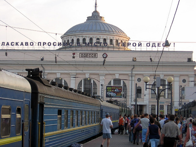 Odessa Main Station